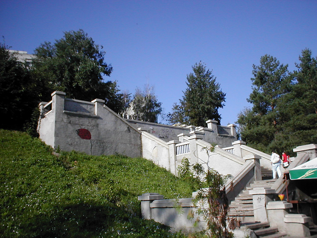 historical stairs down from University's hights to place of former Nikolay's square and current University's (Lenin's) garden and Pushkin street in Kazan